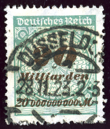 Stamp of Germany, inflation issue October 1923, 10 milliards Mark, cancelled at DÜSSELDORF on 28-11-1923. Michel N°329A.